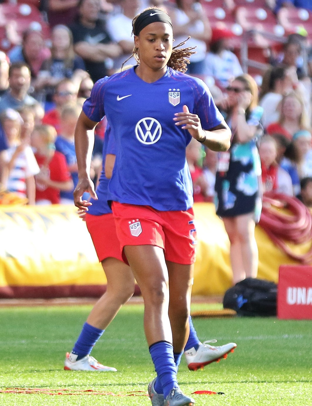 Jessica McDonald warms up before the USWNT friendly against New Zealand on May 16, 2019, in St. Louis.